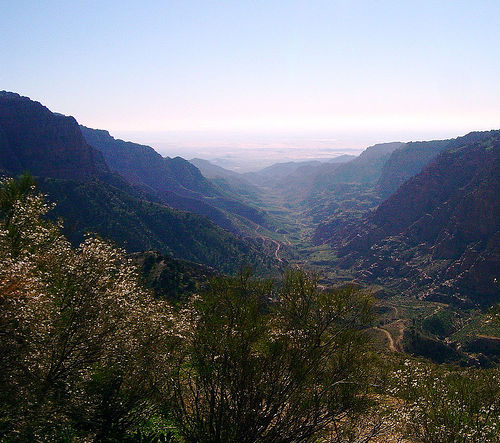 Dana Gorge, April 2005. Taken by Nick Fraser .